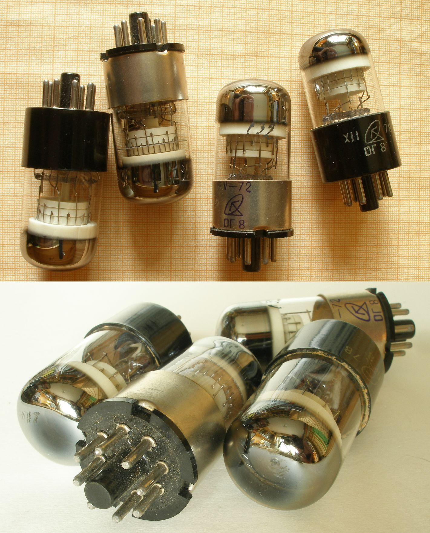 Soviet dekatrons.